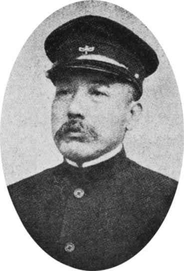 Masatoki Waku, 4th director of the Aoyama Normal School.